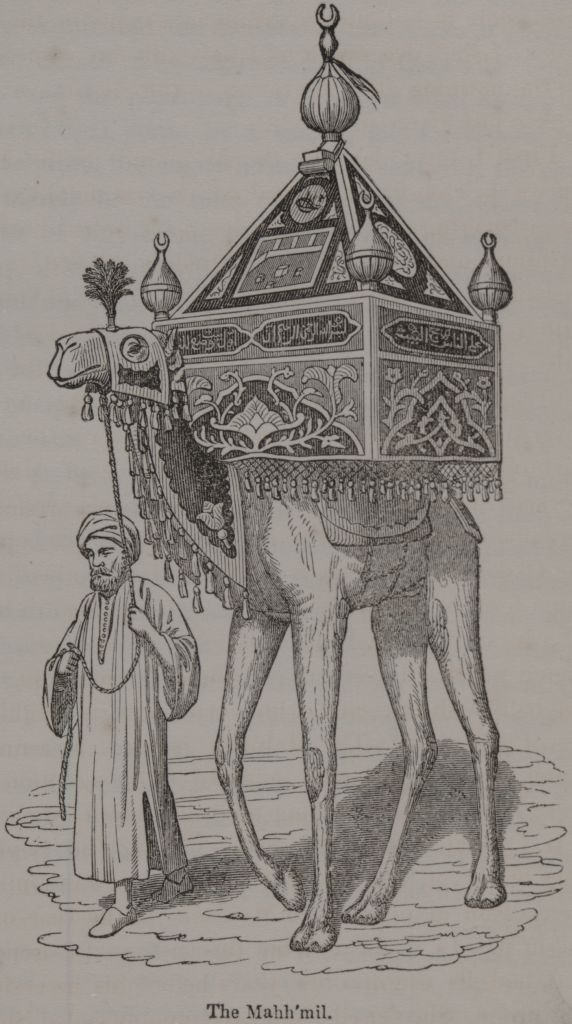 A mahh'mil, a square skeleton-frame of wood with a pyramidal top and cover of black brocade, on the back of a camel led by a man. Engraving (prints).